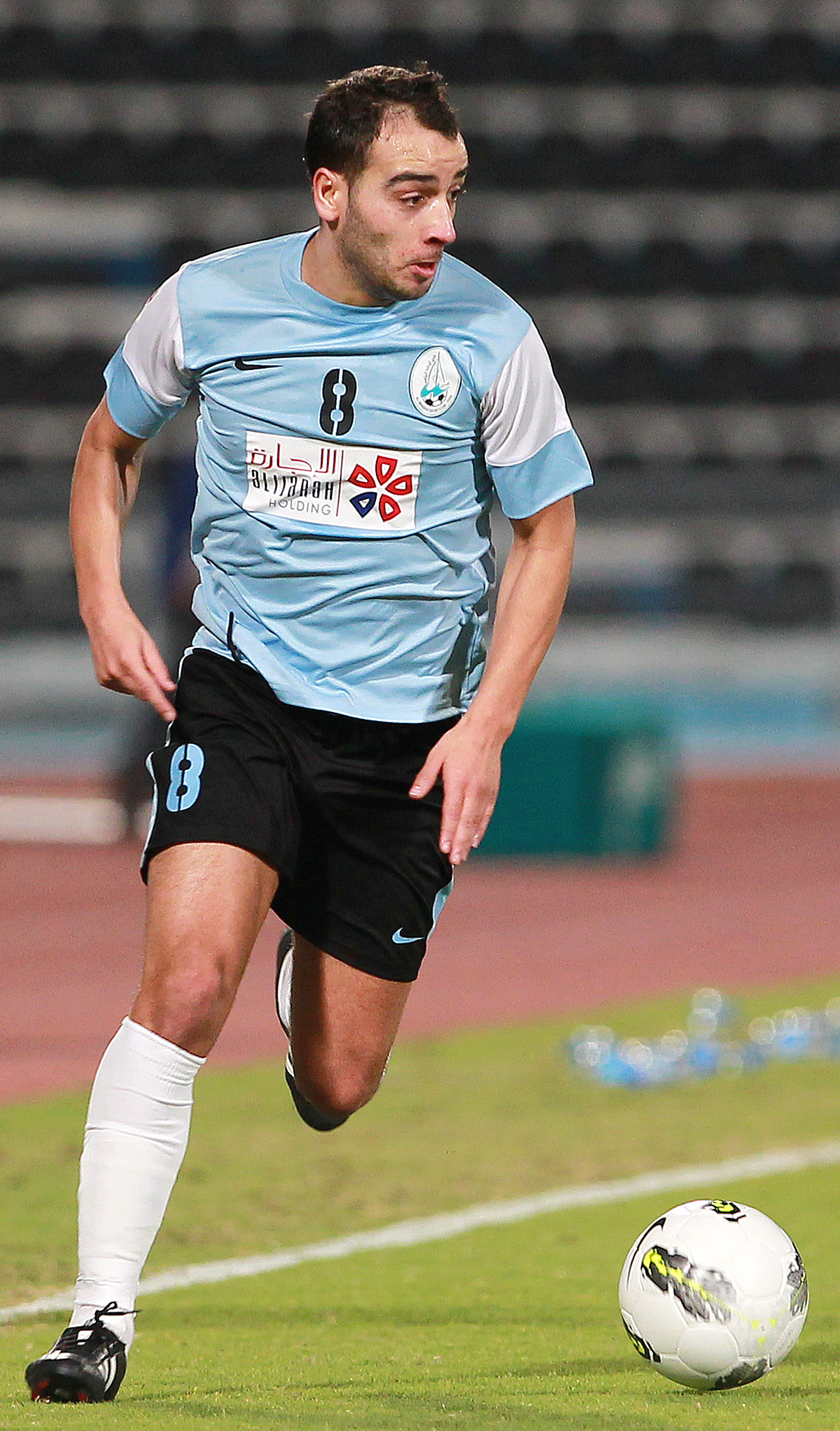 Al Wakra's Dutch professional Said Boutahar runs with the ball during a Qatar Stars League match. Pic by AK Bijuraj